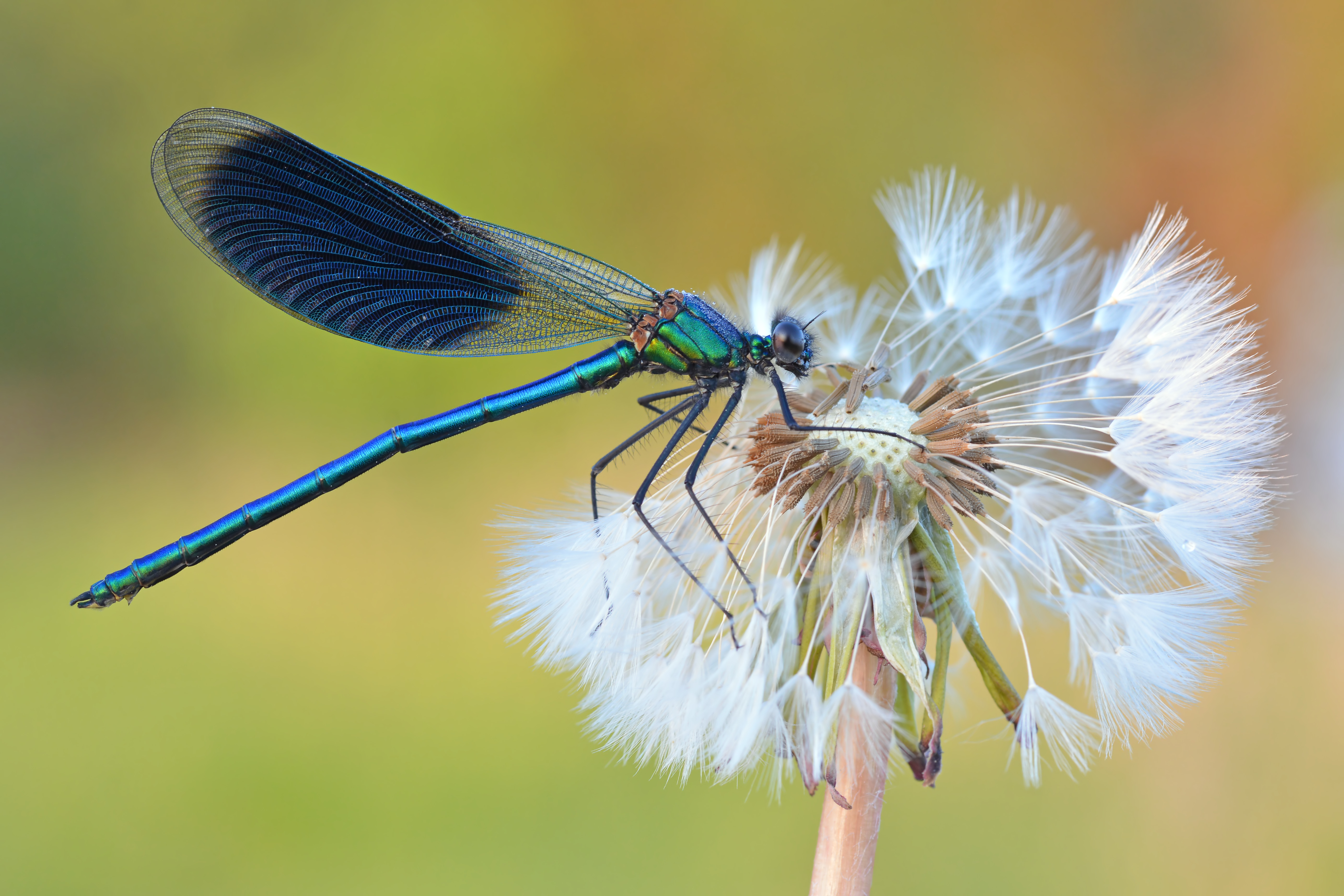 Banded demoiselle (Calopteryx splendens) at NSG Gülper See Germany WDPA under the ID 14395